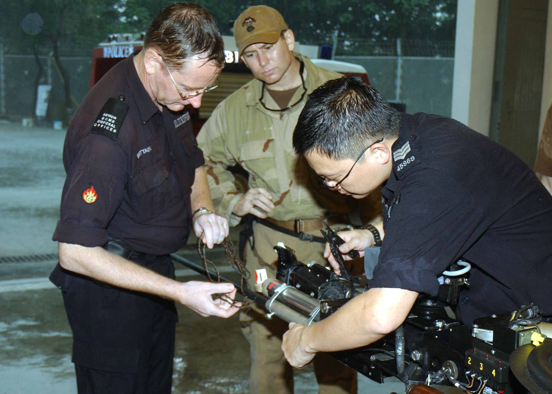 Hong Kong (June 9, 2006) - Equipment Operator 1st Class Toby Griffin, assigned to Explosive Ordnance Disposal Mobile Unit One One (EODMU-11) Detachment 15, receives training from members of the Hong Kong Police Department's Explosive Ordnance Disposal Unit. EODMU-11 participated in a three-day exercise with the Hong Kong Police during the Ronald Reagan Carrier Strike group's recent port visit to Hong Kong. U.S. Navy photo by Chief Journalist Donnie Ryan (RELEASED)